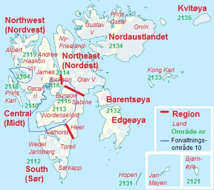 Map of Svalbard and Jan Mayen, with denotions of Nature Regions (bold red), "Land" names, ex.: Bünsow means "Bünsow Land" (italic red), Area codes (Område-nr) (bold green), Management Area 10 (Forvaltningsområde 10) (blue line). Management Area 10 is the area where visitors can roam without special insurance and without having to notify the Governor of Svalbard.